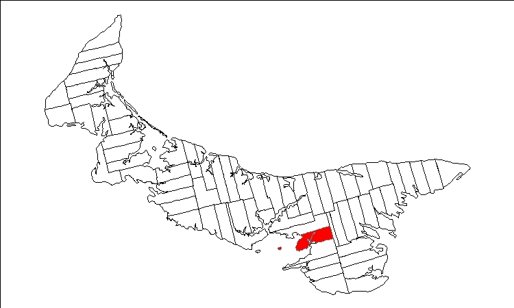 Public domain map of Prince Edward Island created by User:Plasma east with data courtesy of Geogratis, modified to show townships. Released under GFDL (self).